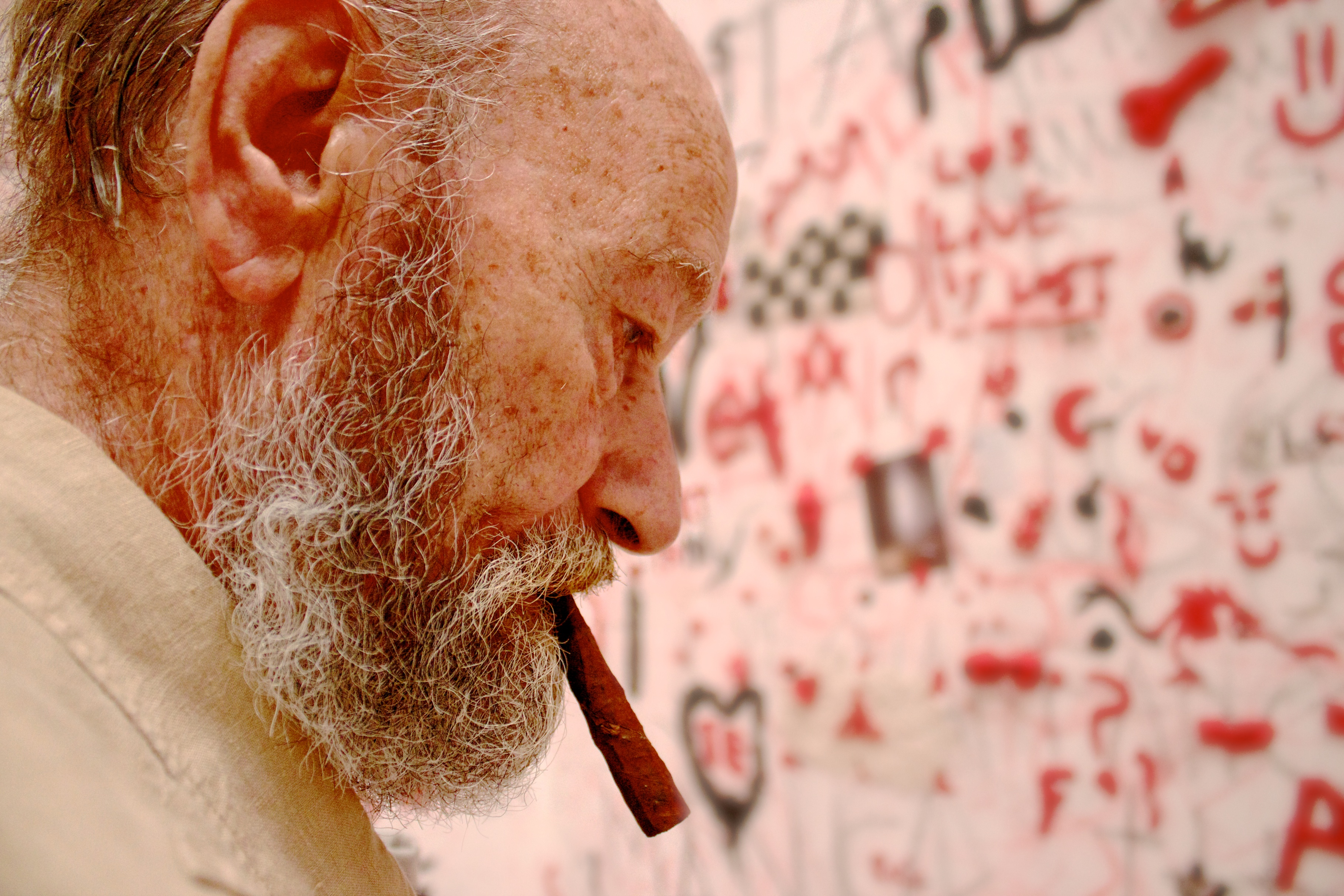 The artist Marcello Mariani in 2011, at the 54 edition of the Venice Biennale